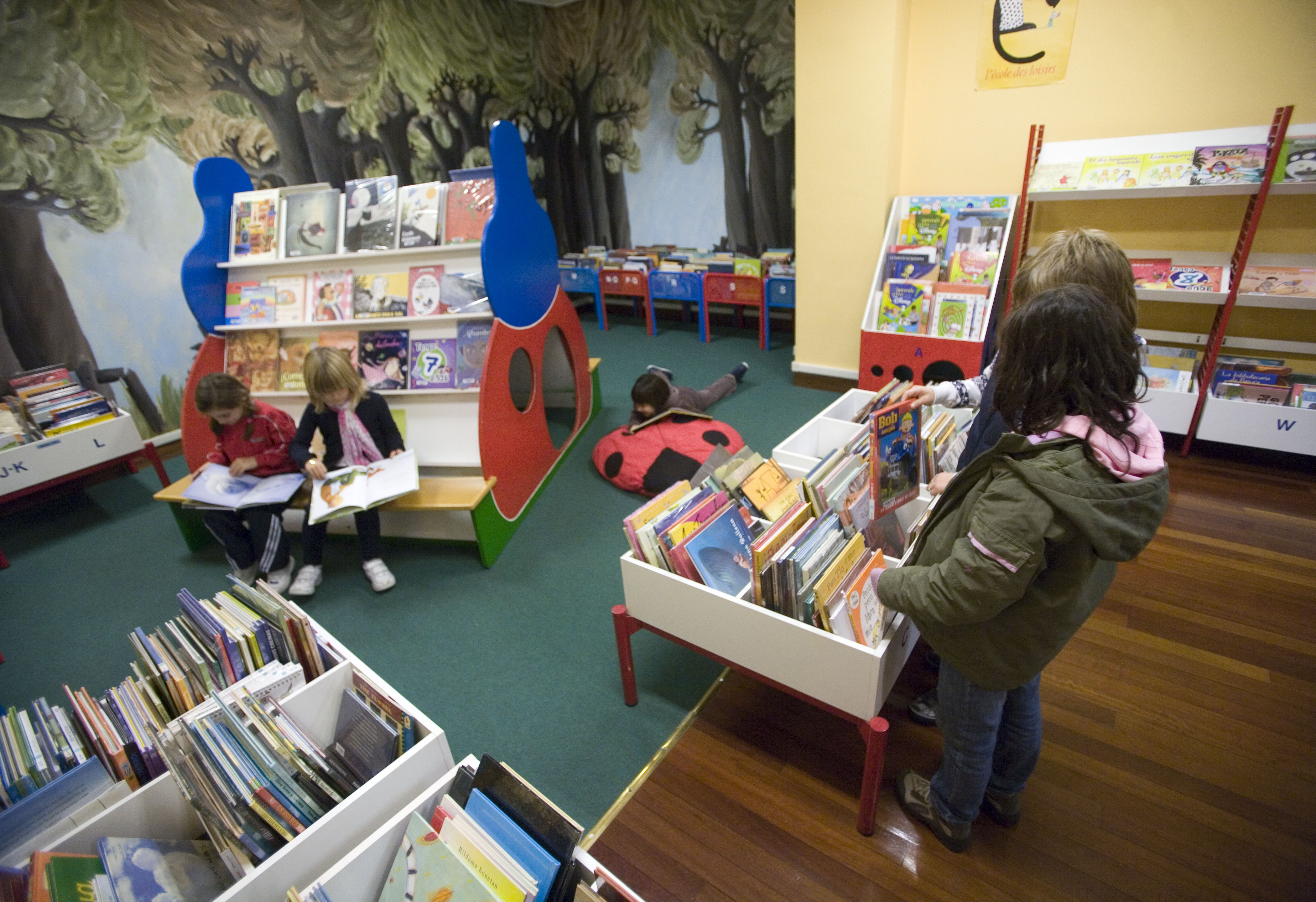 Donostiako Liburutegi Nagusiaren Haur Saila, Fermín Calbetón 25